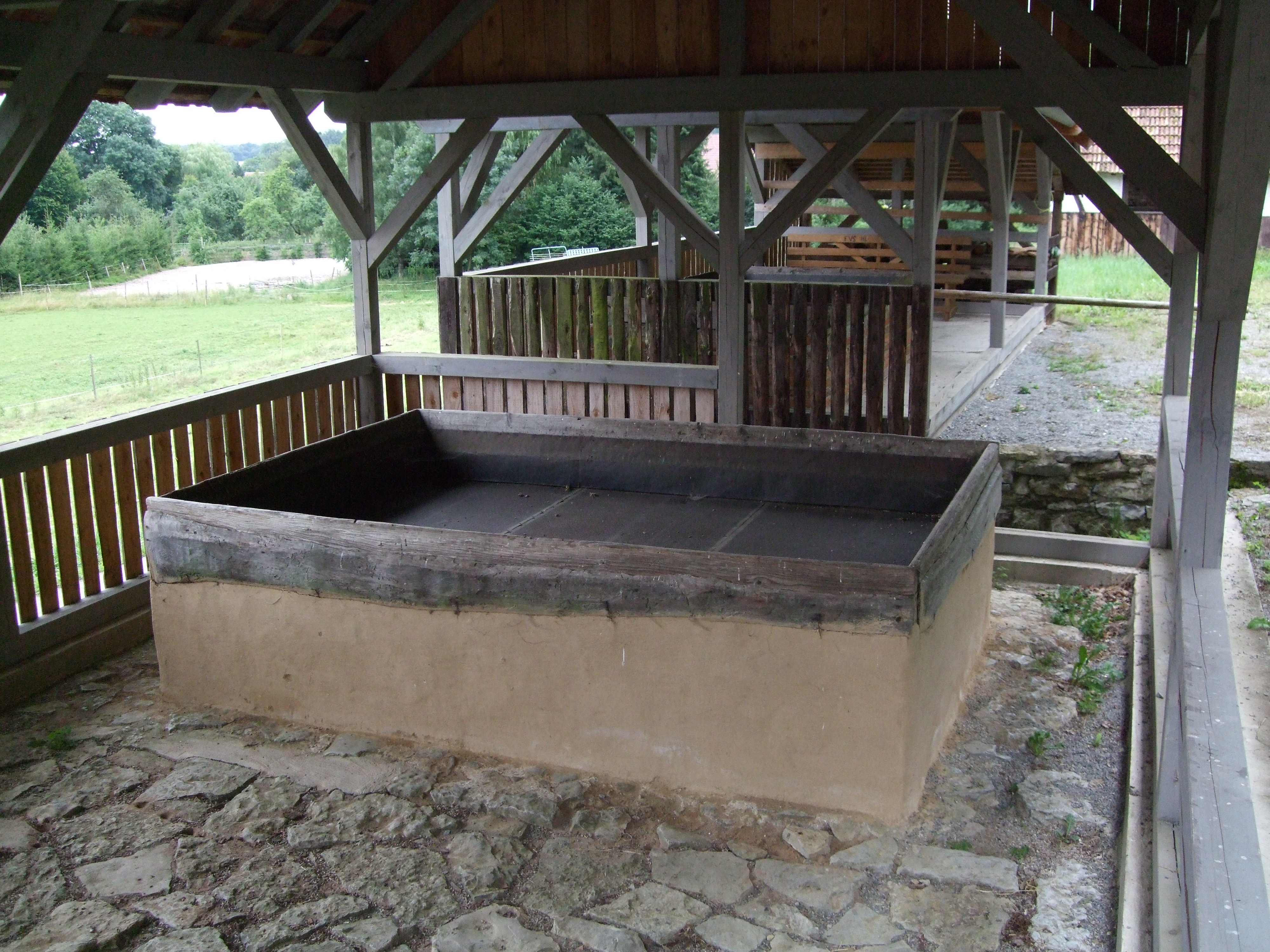 Drying kiln for unripe spelt. Sindolsheim, "Bauland", Baden-Württemberg, Germany